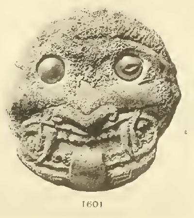 Gorgoneion.